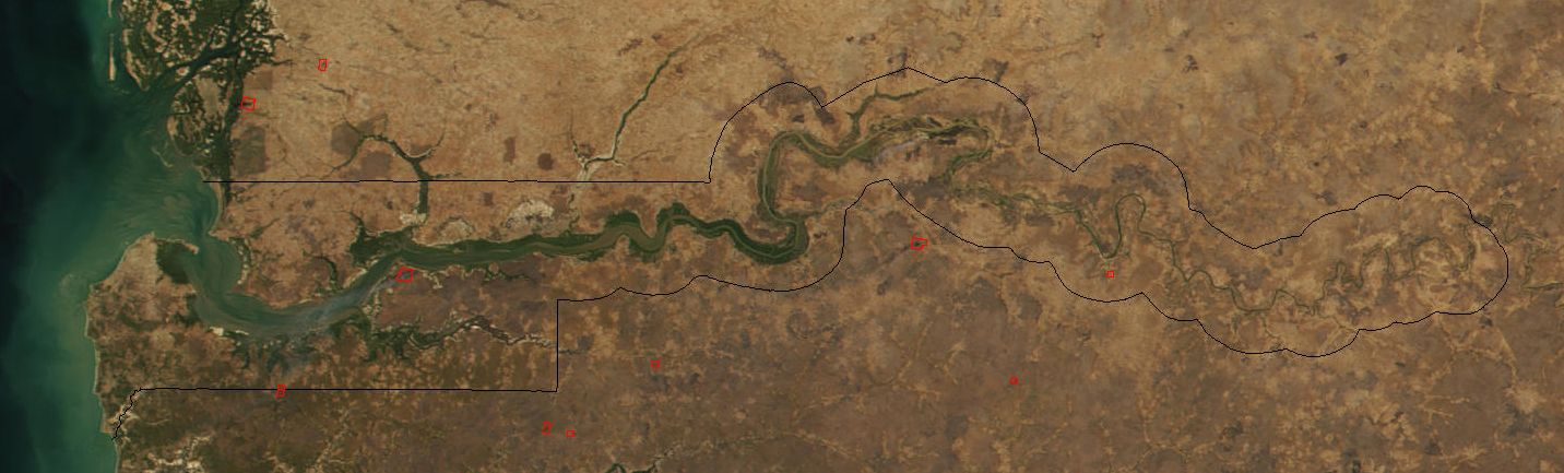 Image cropped to The Gambia. The red dots sprinkled all across this true-color image show the locations of fires mostly located in the African savannas just south of the Sahel region. Many fires were burning in this region throughout February 2002. This scene was acquired by the Moderate-resolution Imaging Spectroradiometer (MODIS), flying aboard NASA's Terra satellite, on Feb. 15.